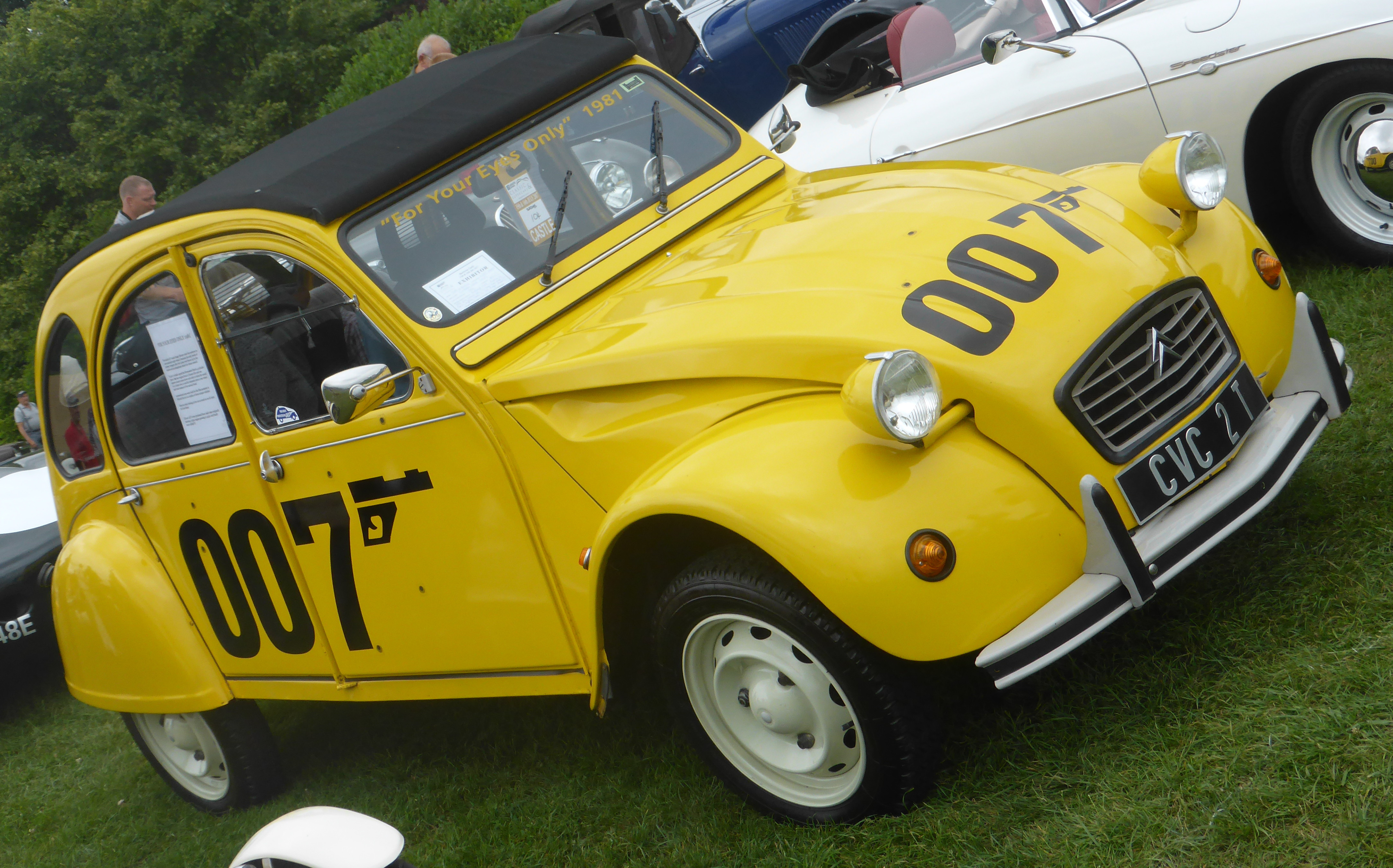 According to DVLA, only 602cc (I think the 2CV used in one of the James Bond films used a GS/GSA flat-4). Classics at the Castle, Sherborne